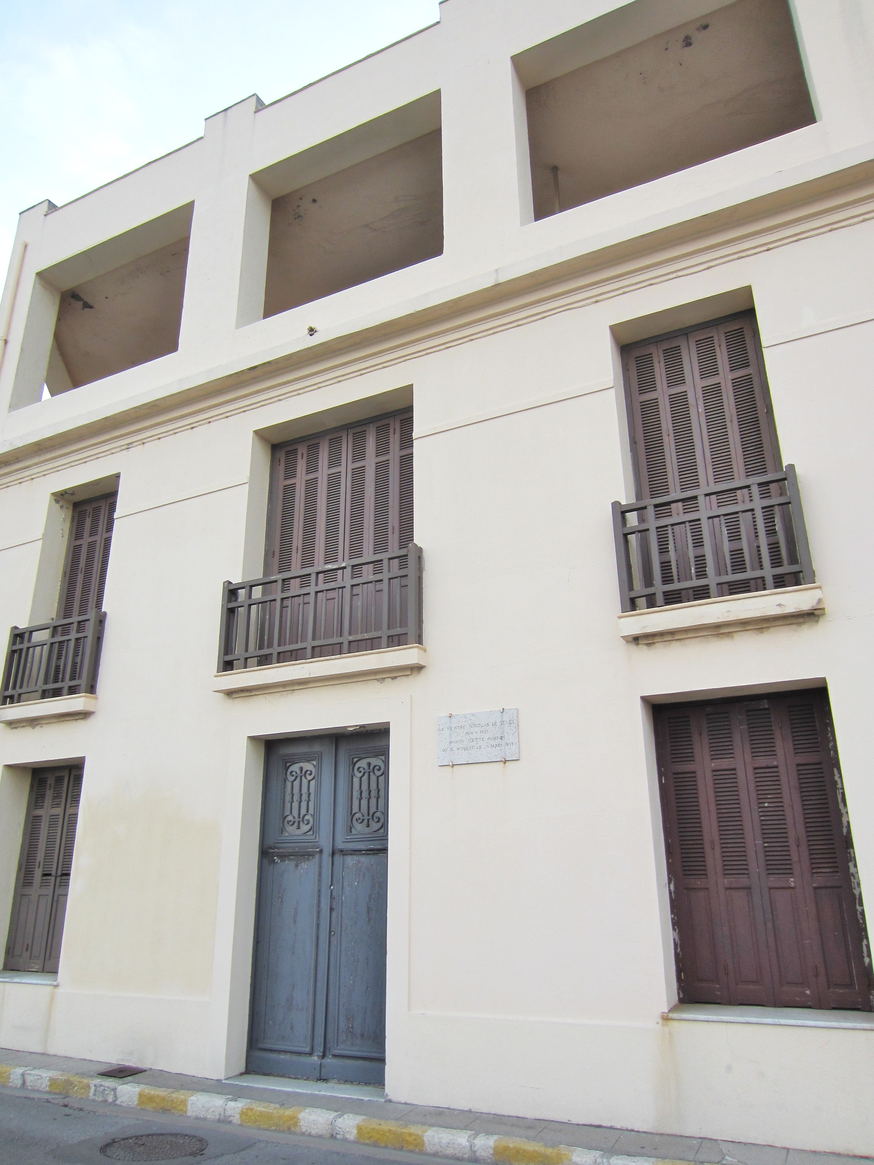 Description maison nicolas de stael Antibes Date22 October 2011Sourcemon appareil photoAuthorAimelaimePermission (Reusing this file) maison nicolas de stael Antibes